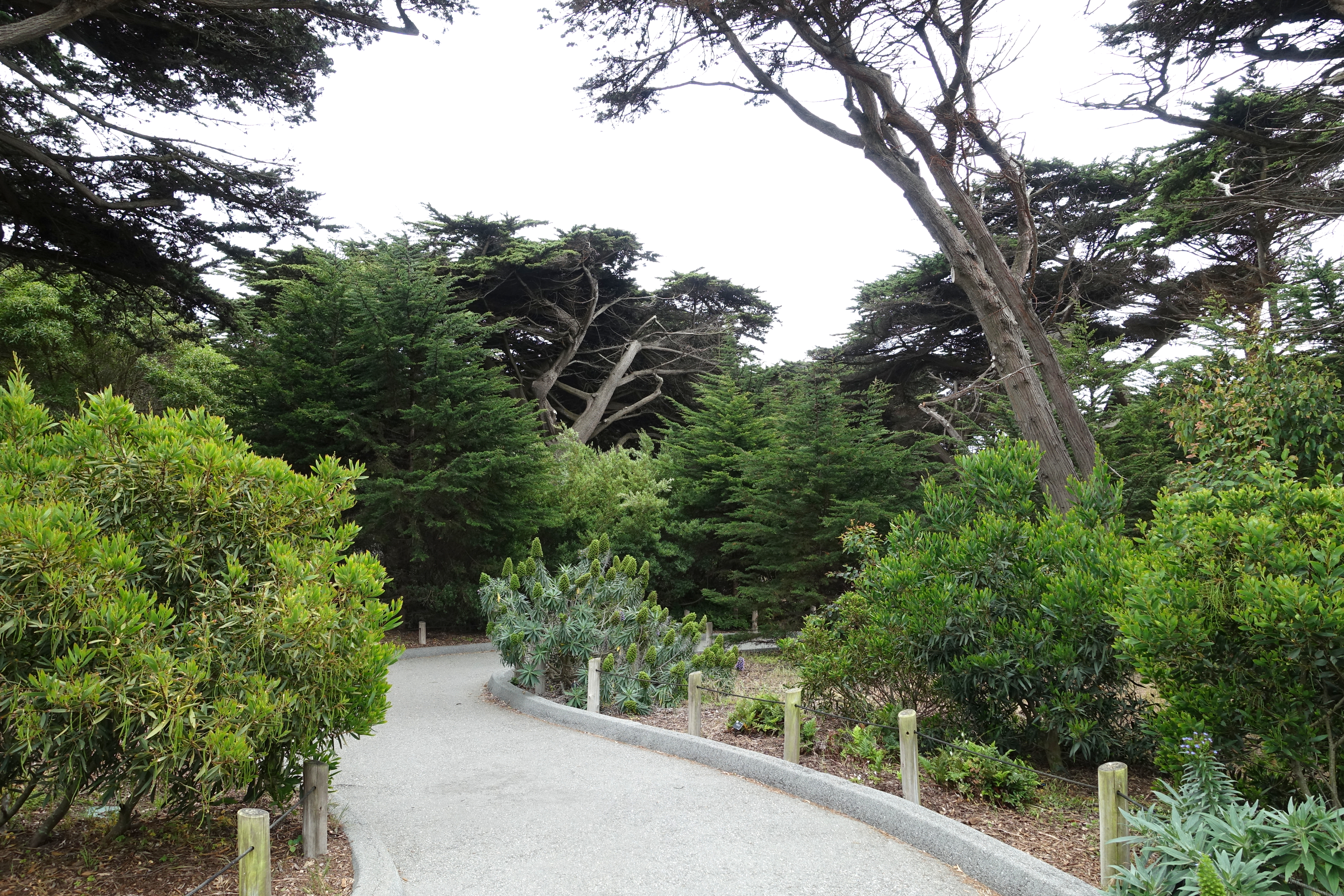 San Francisco Zoo - San Francisco, California, USA.